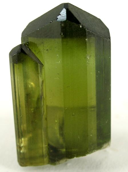 Elbaite Locality: Chhappu, Braldu Valley, Skardu District, Baltistan, Northern Areas, Pakistan (Locality at ) Size: 2.6 x 1.4 x 0.9 cm. A beautiful, gemmy and lustrous, rich green, flattened tourmaline crystal with a lustrous, very dark green to black, pyramidal termination. This thumbnail piece has very nice composition with the sidecar crystal. From a very uncommon Pakistan locale - Chhappu in the Braldu Valley. Ex. Allan Young Thumbnail Collection. Weighs 6 grams.